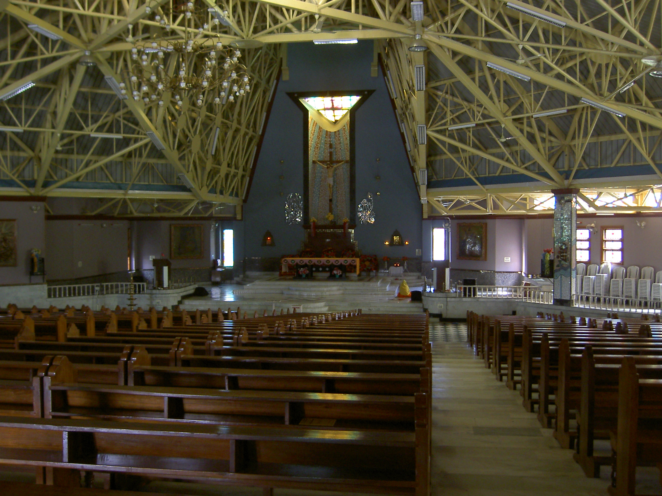 Inside of the Catholic Cathedral in Imphal (Manipur, India)